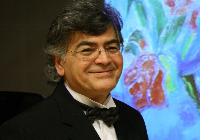 Mammadov giving a concert at Utsikten (hotel), Kvinesdal, Norway